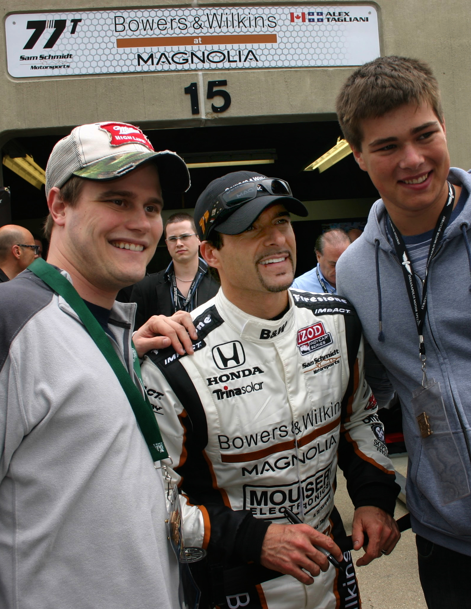 Alex Tagliani with fans in Gasoline Alley at Indianapolis Motor Speedway on May 27, 2011 after winning the pole position for the 2011 Indianapolis 500